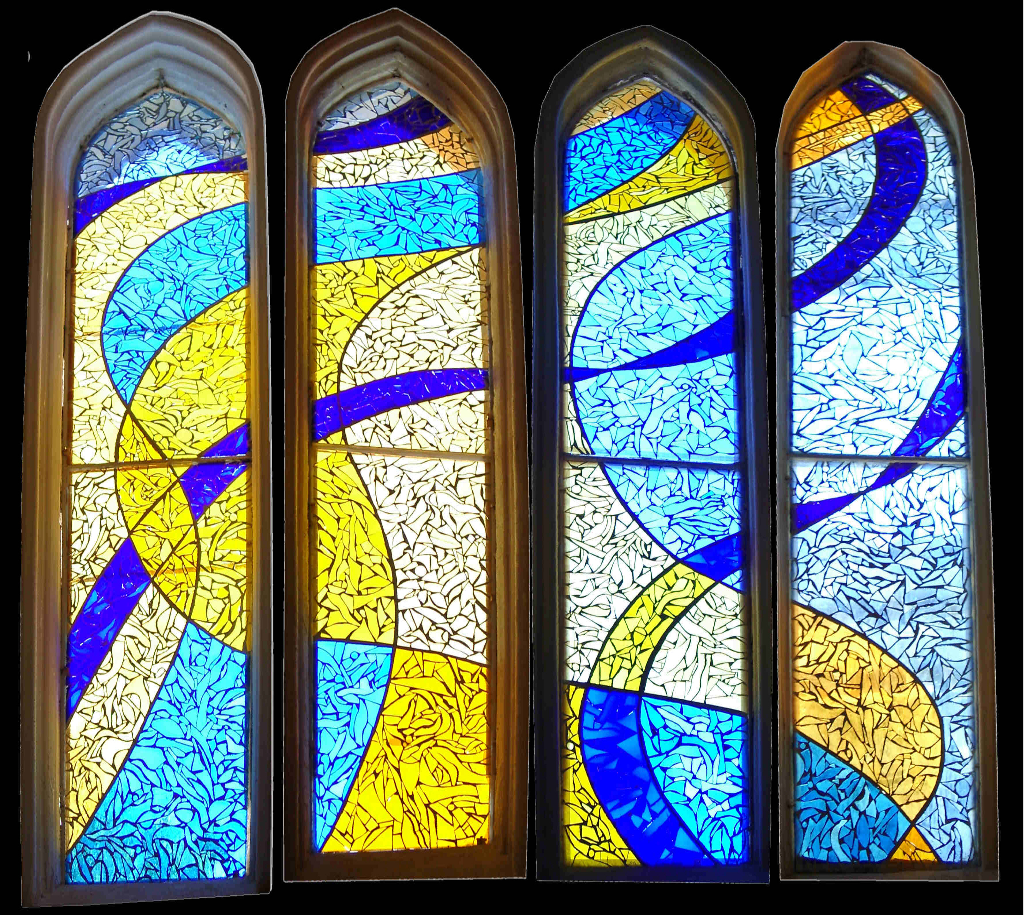 Glas pane in the former church of Pézènes-les-Mines. Artist: Verena Barthes